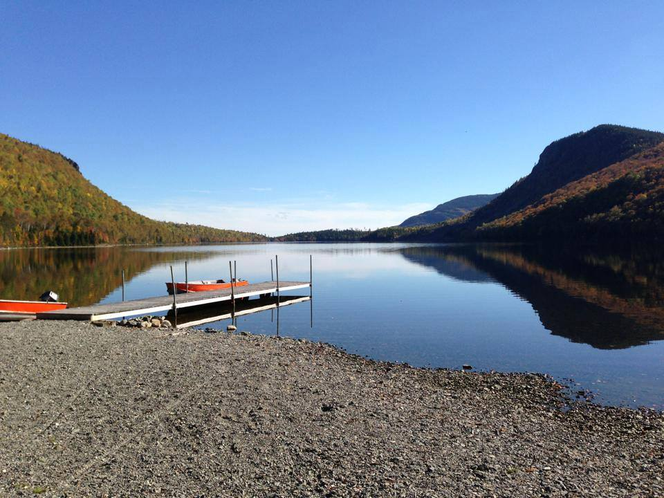 View from Bulldog Camps on the north shore of Enchanted Pond.